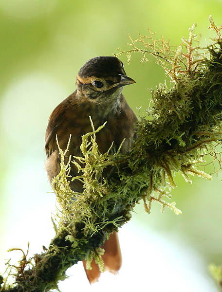 The Scaly-throated Foliage-gleaner (Anabacerthia variegaticeps) Milpe Bird Sanctuary, NW Ecuador 3/10/2007